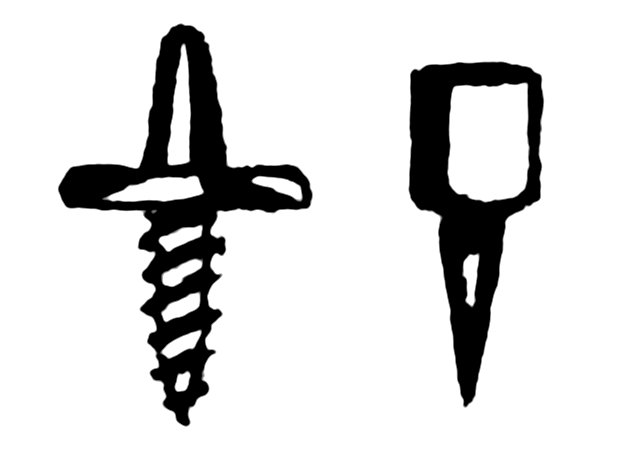 An illustration of a hobnail.